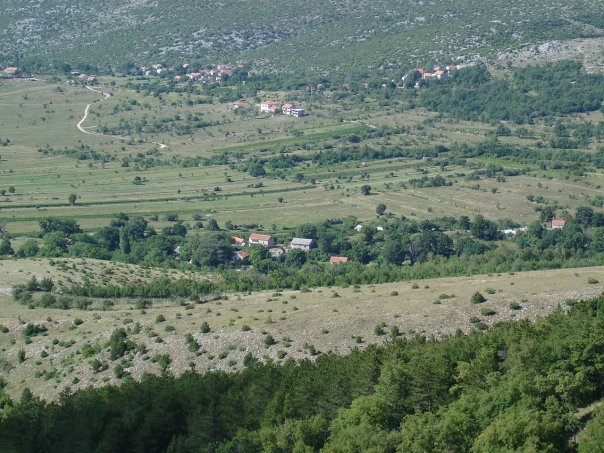 Štikovo, Croatia.